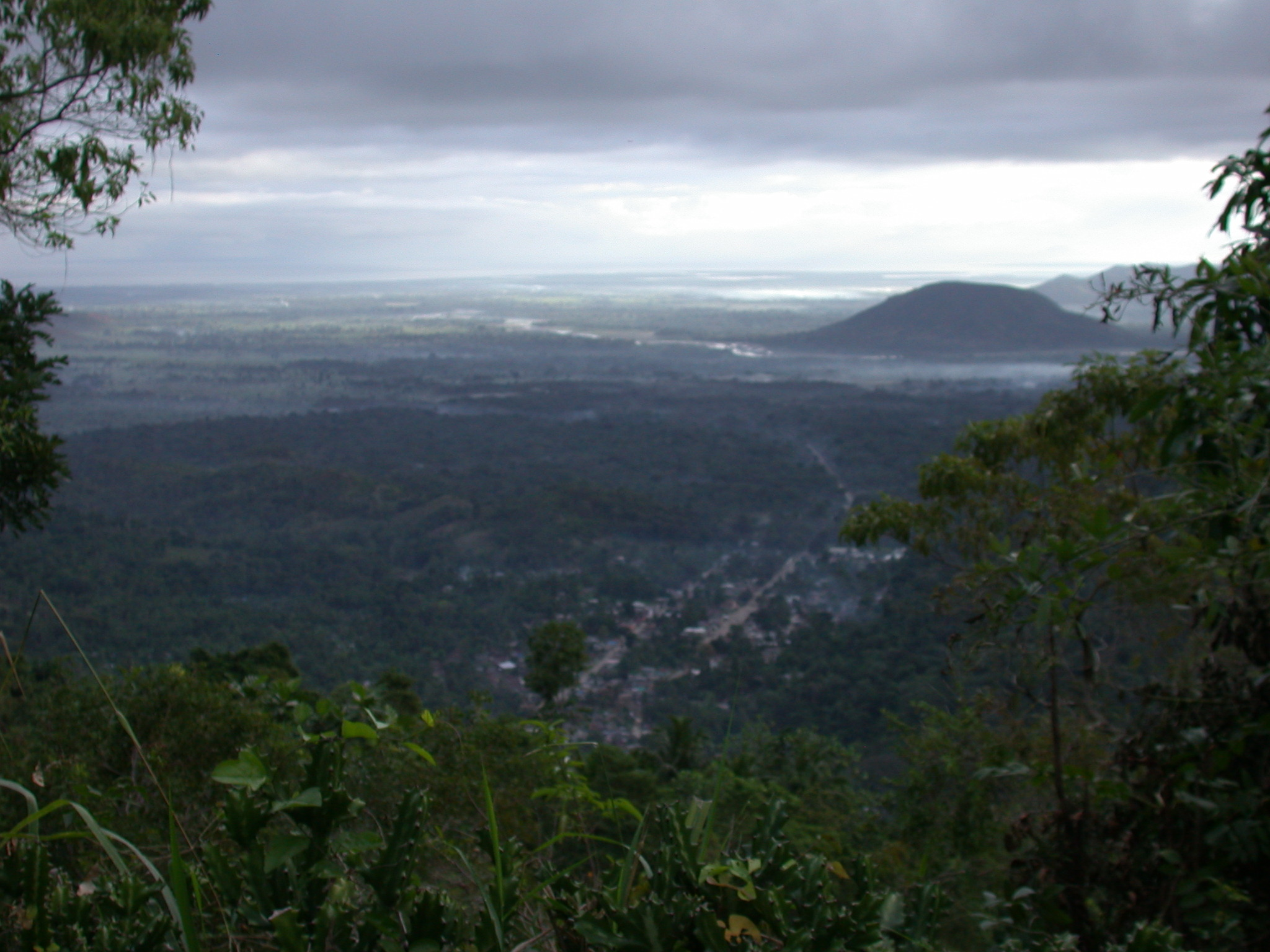 Image of the town of Milot, Haiti taken from the path up to the Citadel.